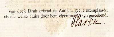 Signature of Onno Zwier van Haren in his volume of poetry De Geusen (Geuzen), 1776.